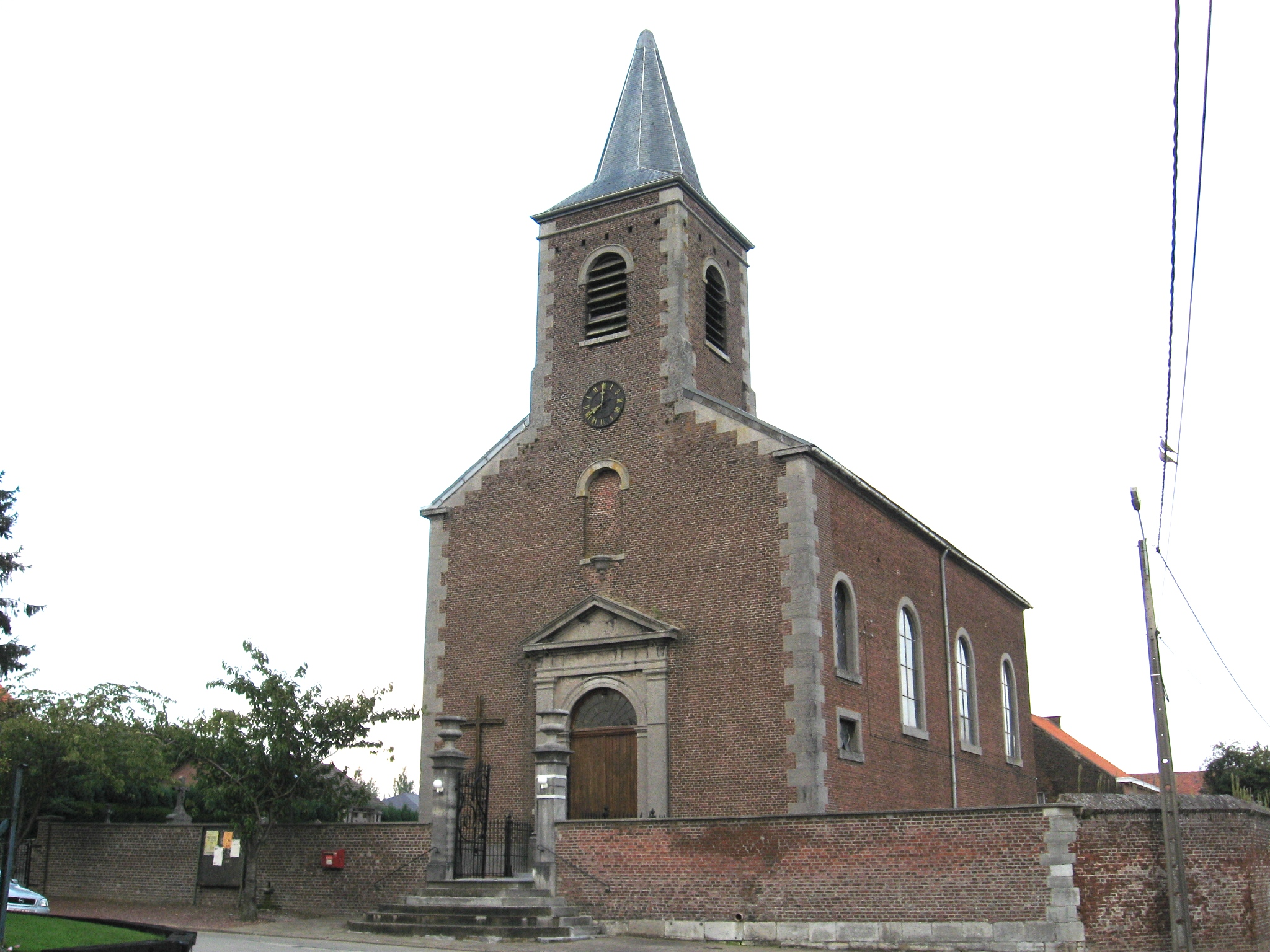 Church of the Holy Cross in Vorsen, Gingelom, Limburg, Belgium